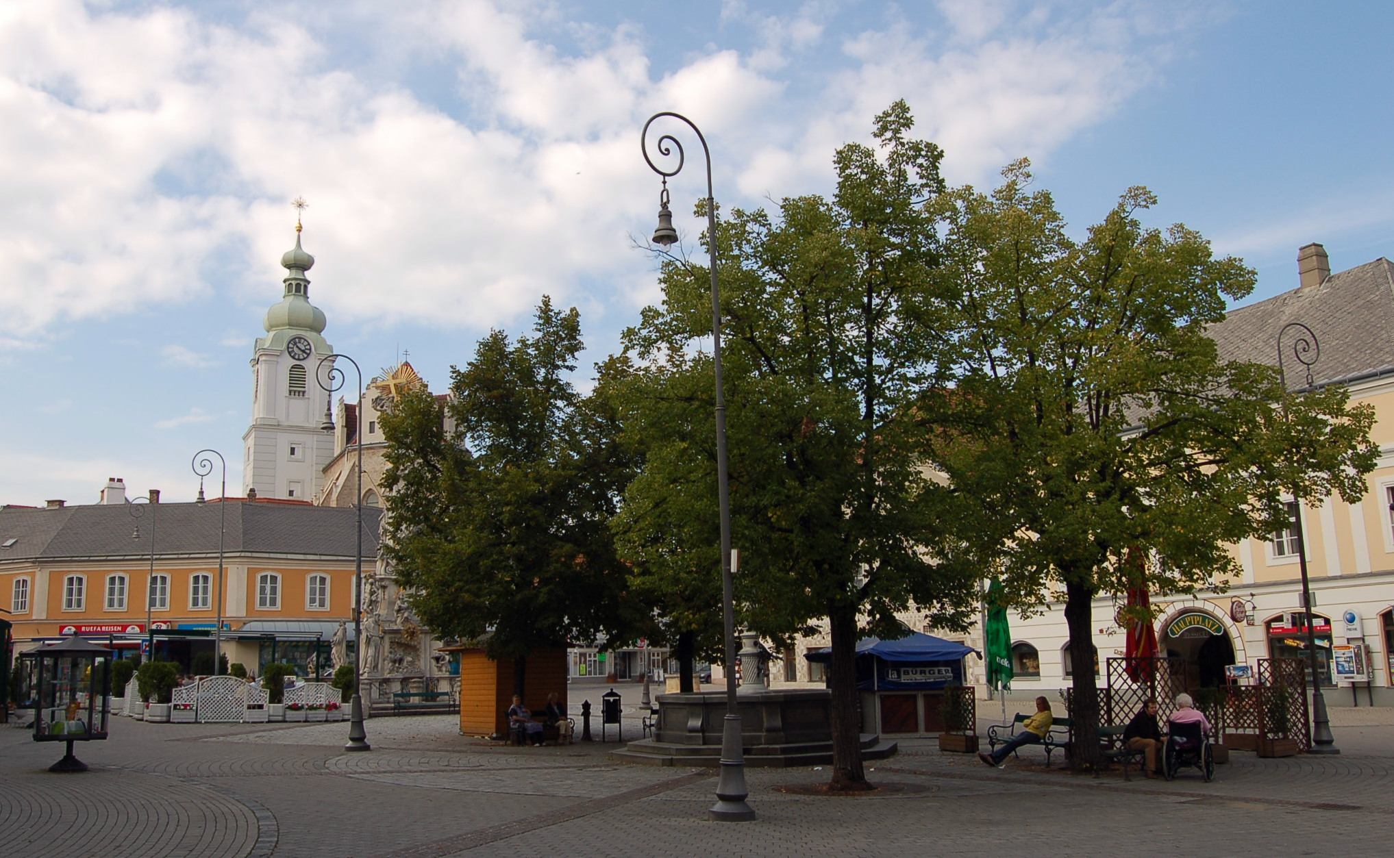 Main square of Neunkirchen, Lower Austria